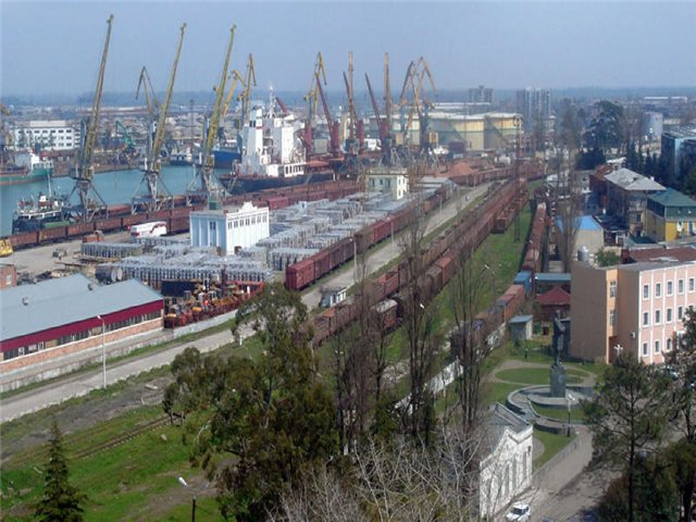 port of poti